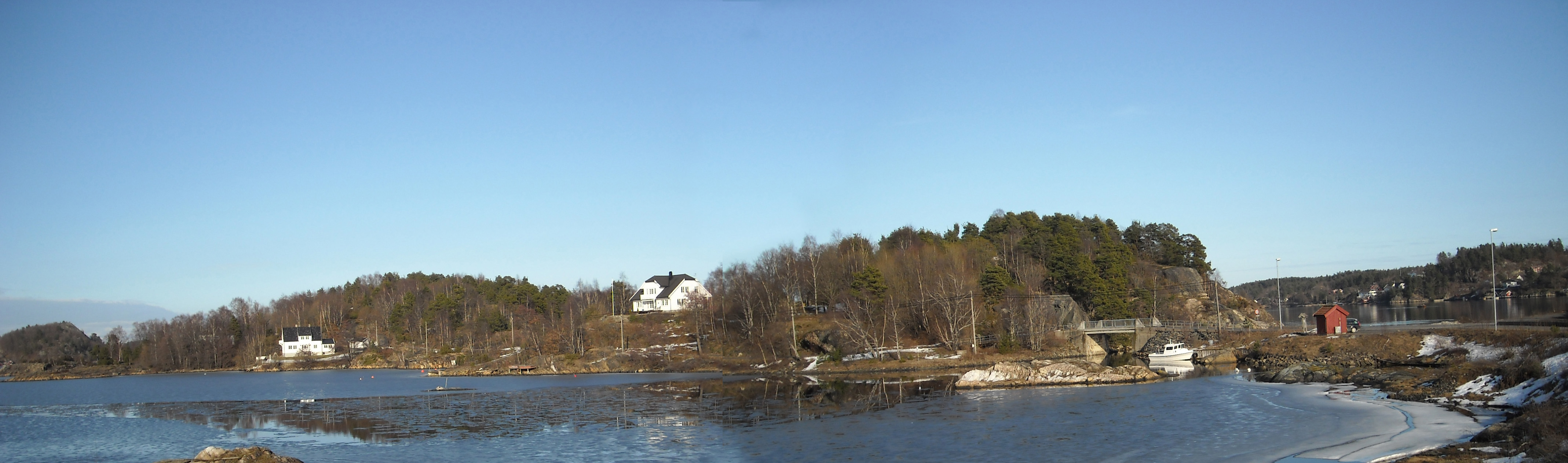 Buoya island at Eydehavn, Norway